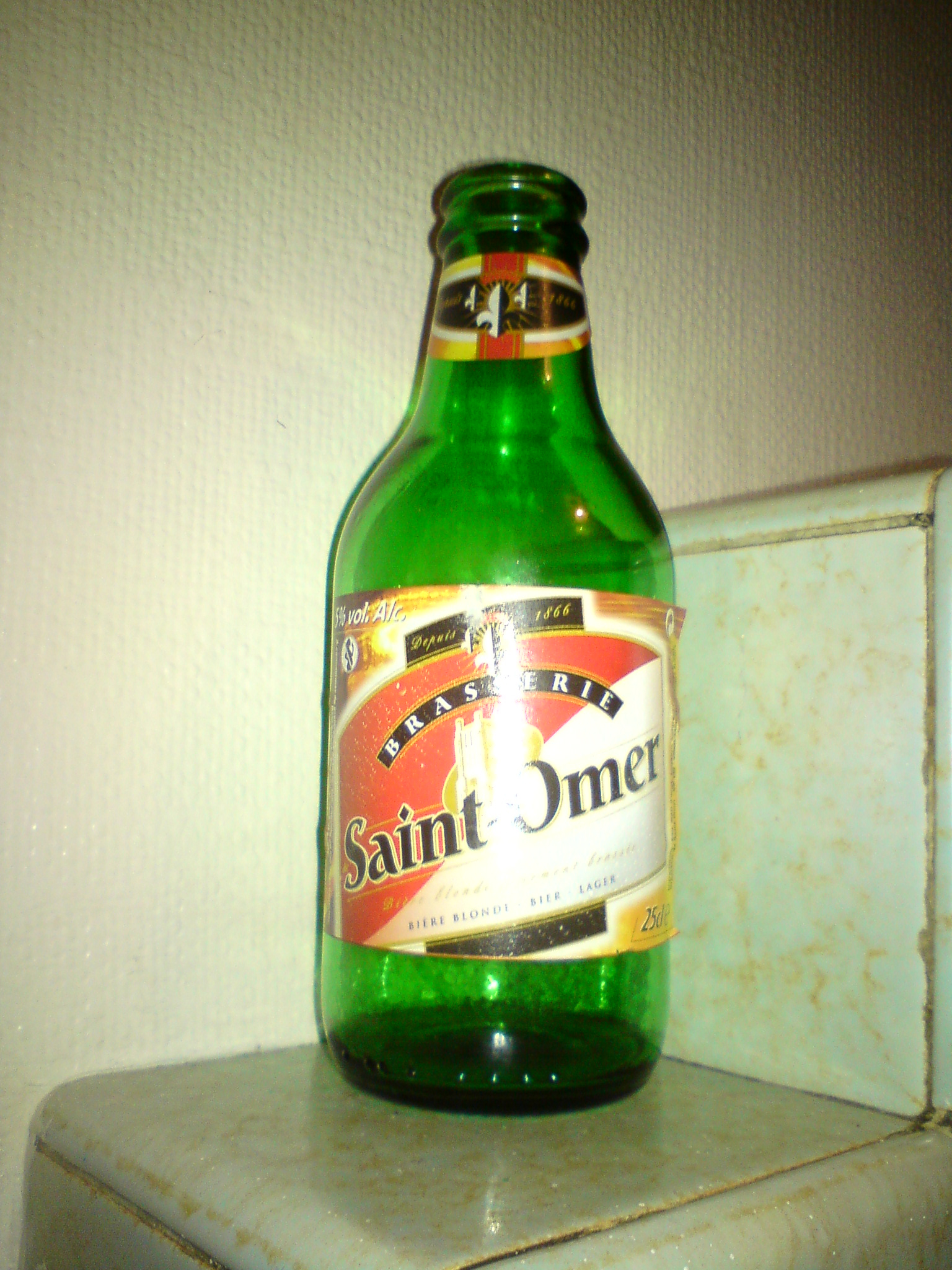 The sweet sweet Saint-Omer